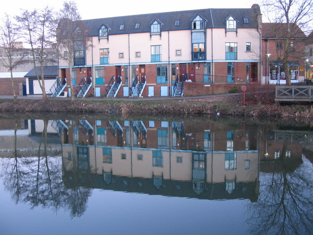 Apartments by the River Avon. A view looking east across the River Avon to some unusual apartments, accessed via a set of steps. Not sure if this is something to do with flooding of the river as the radial gate just downstream should prevent such occurrences.